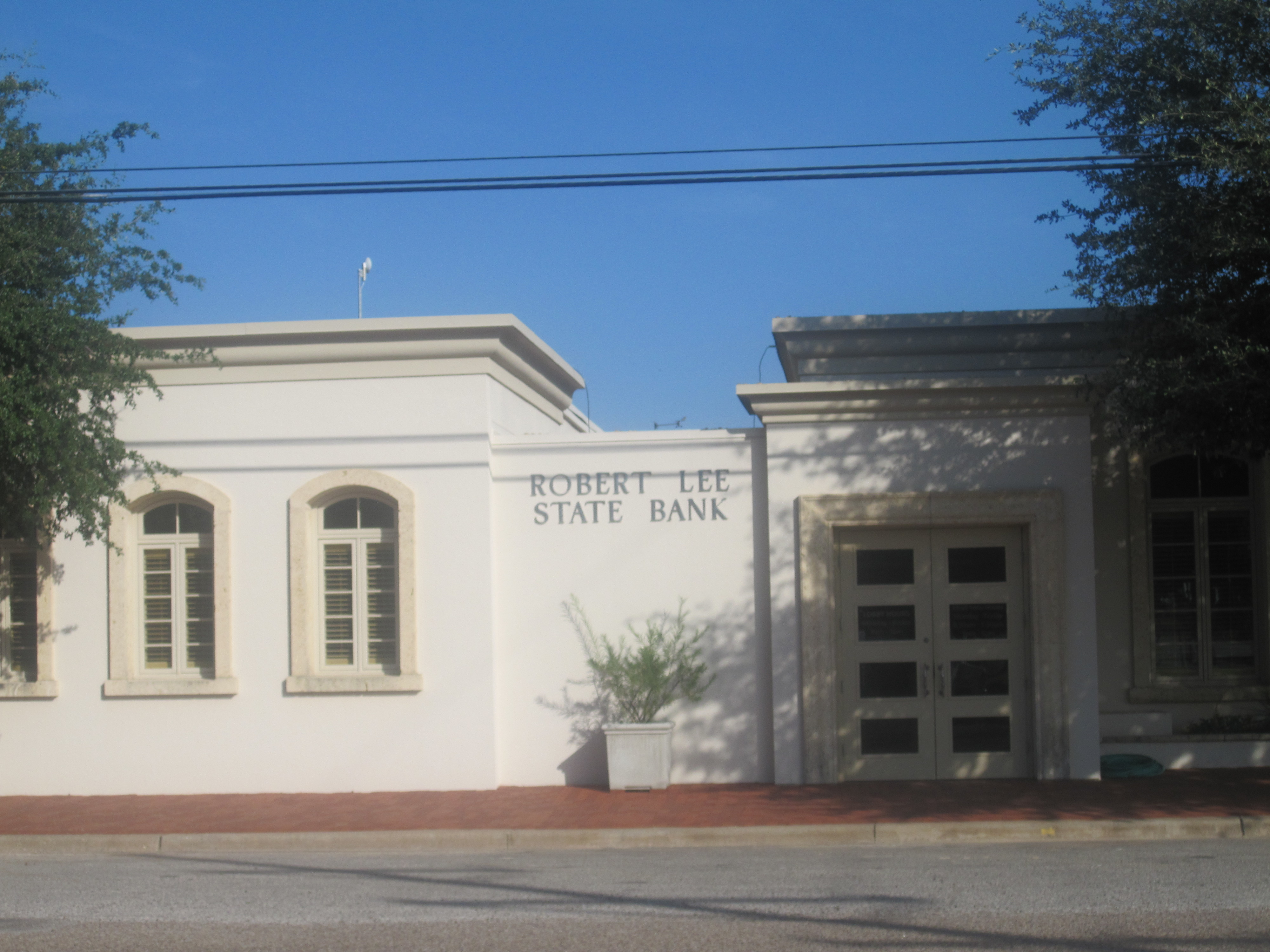 I took photo with Canon camera in Robert Lee, TX.